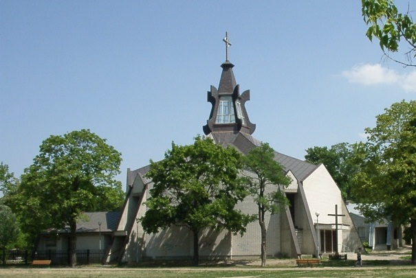 St. Mark's Church in Poznań